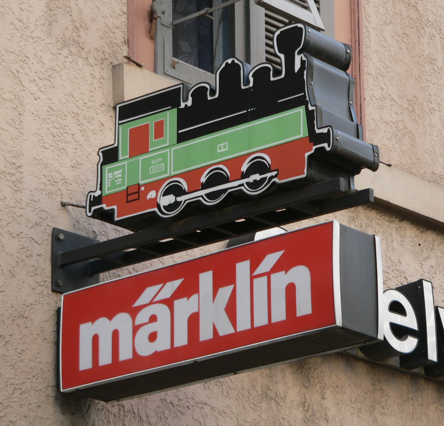 Illuminated advertising for Märklin in Stuttgart, Germany